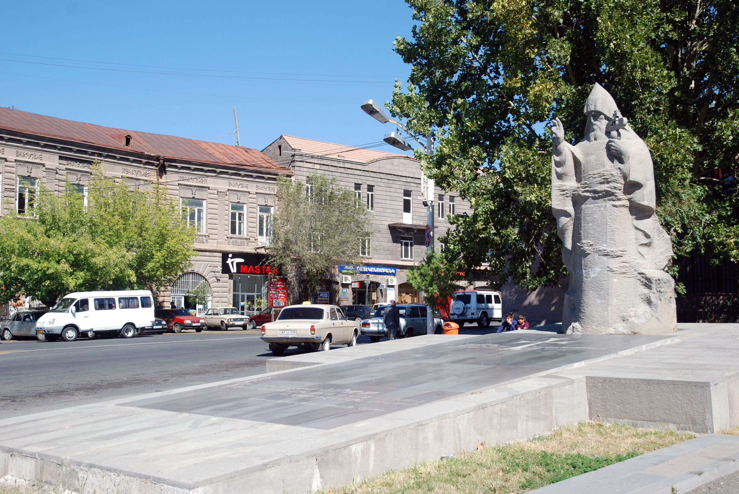 Ashtarak, statue of Nerses II., catholicos 6th ct.